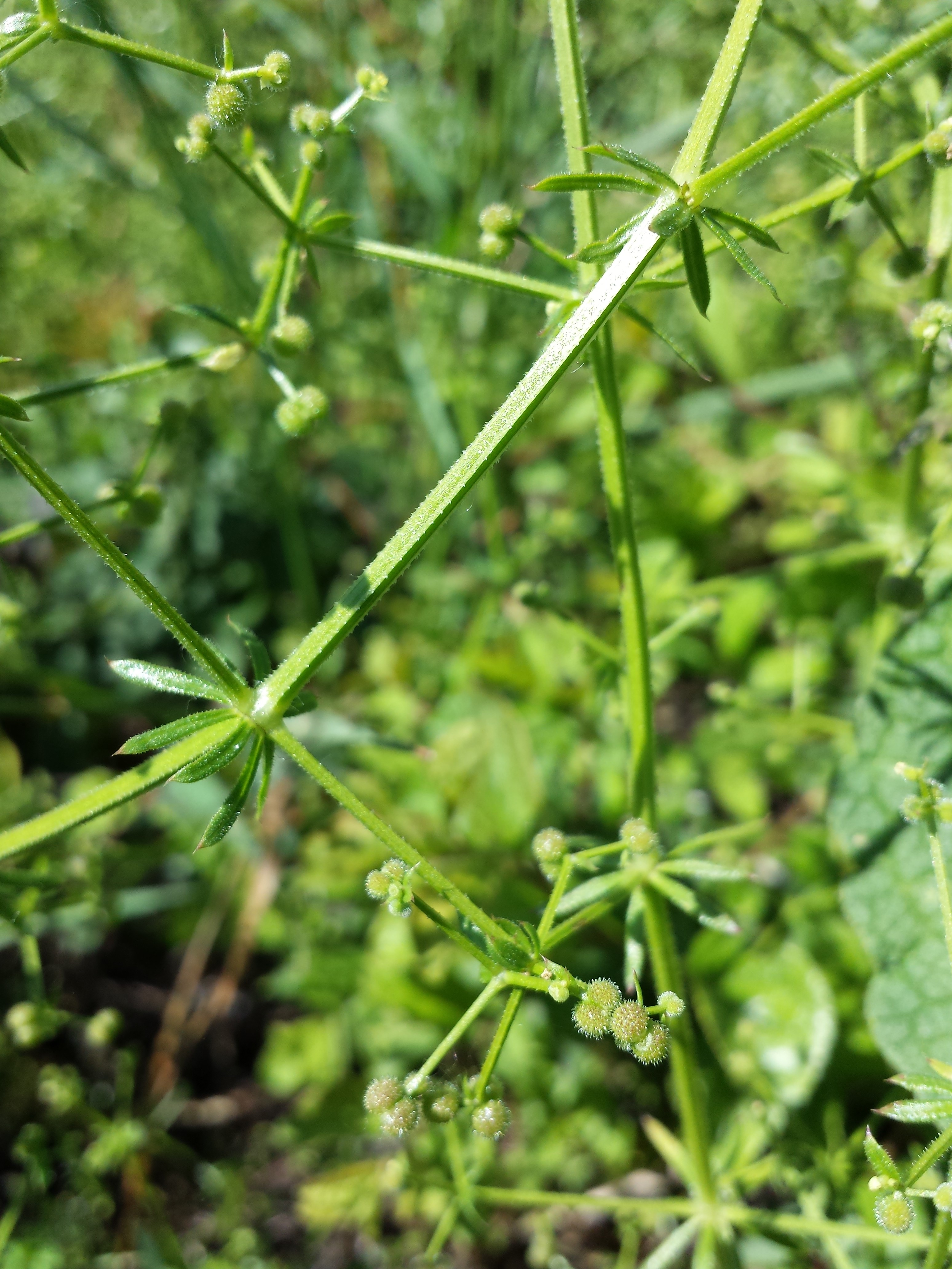 Habitus Taxon: Galium spurium (sensu Fischer et al. EfÖLS 2008 ISBN 978-3-85474-187-9; det. M. A. Fischer 2014-06-07) Location: "Auf der Haid" nearby Gedersdorf, district Krems-Land, Lower Austria - ca. 280 m a.s.l. Habitat: wayside / Loess ground